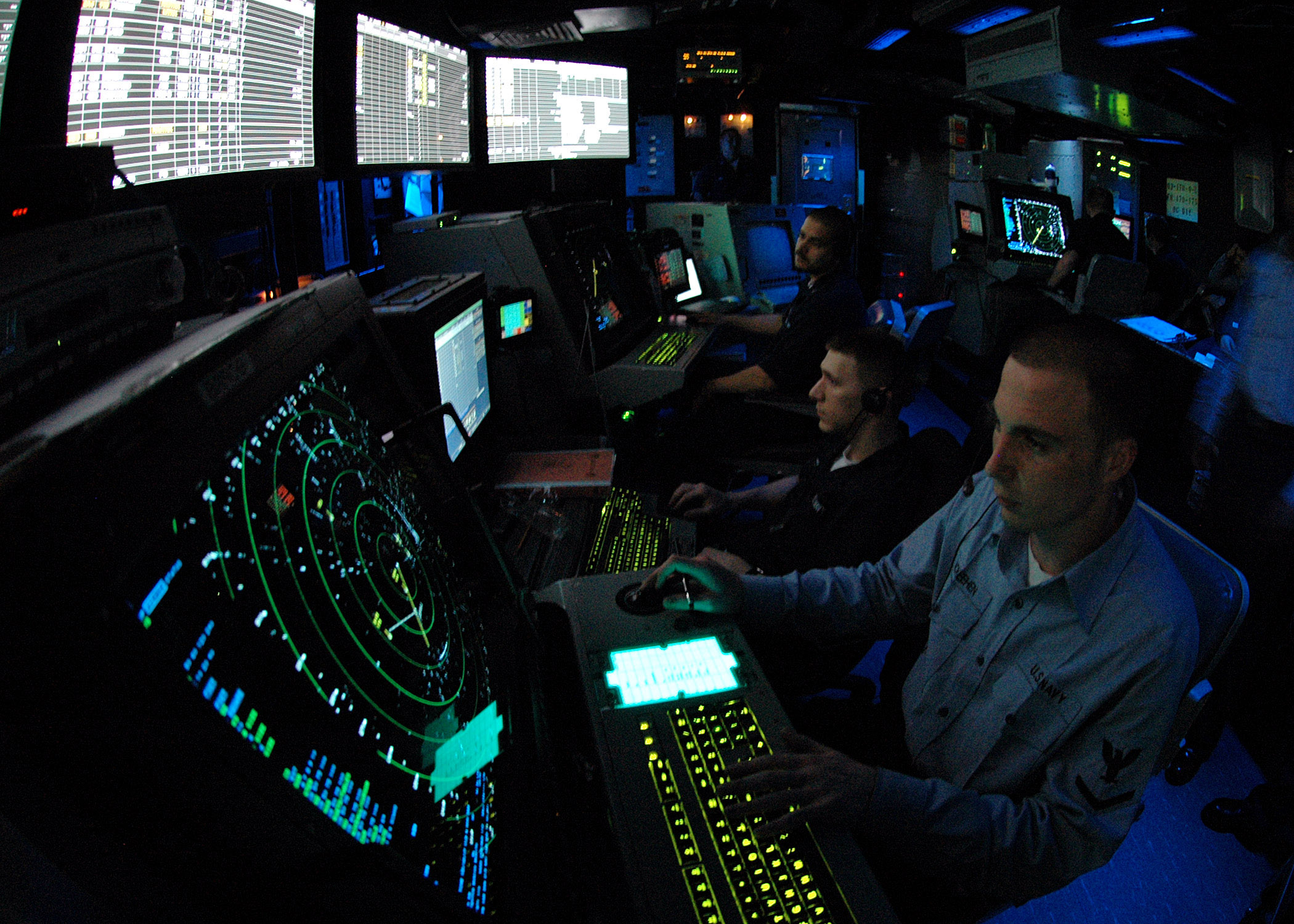 Pacific Ocean (May 5, 2006) - Air Traffic Controller 3rd Class David McKeehe works approach control in Carrier Air Traffic Control Center (CATCC) aboard the Nimitz-class aircraft carrier USS Abraham Lincoln (CVN 72). Lincoln and Carrier Air Wing Two (CVW-2) are currently underway in the Western Pacific operating area. U.S. Navy photo by Photographer's Mate Airman Ronald A. Dallatorre (RELEASED)